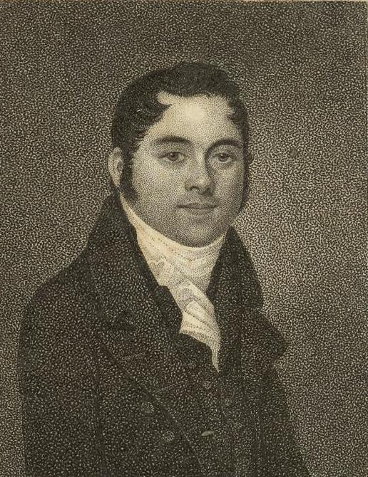 A portrait from the Welsh Portrait Collection at the National Library of Wales. Depicted person: John Bulmer – Independent minister (1784 -1857)